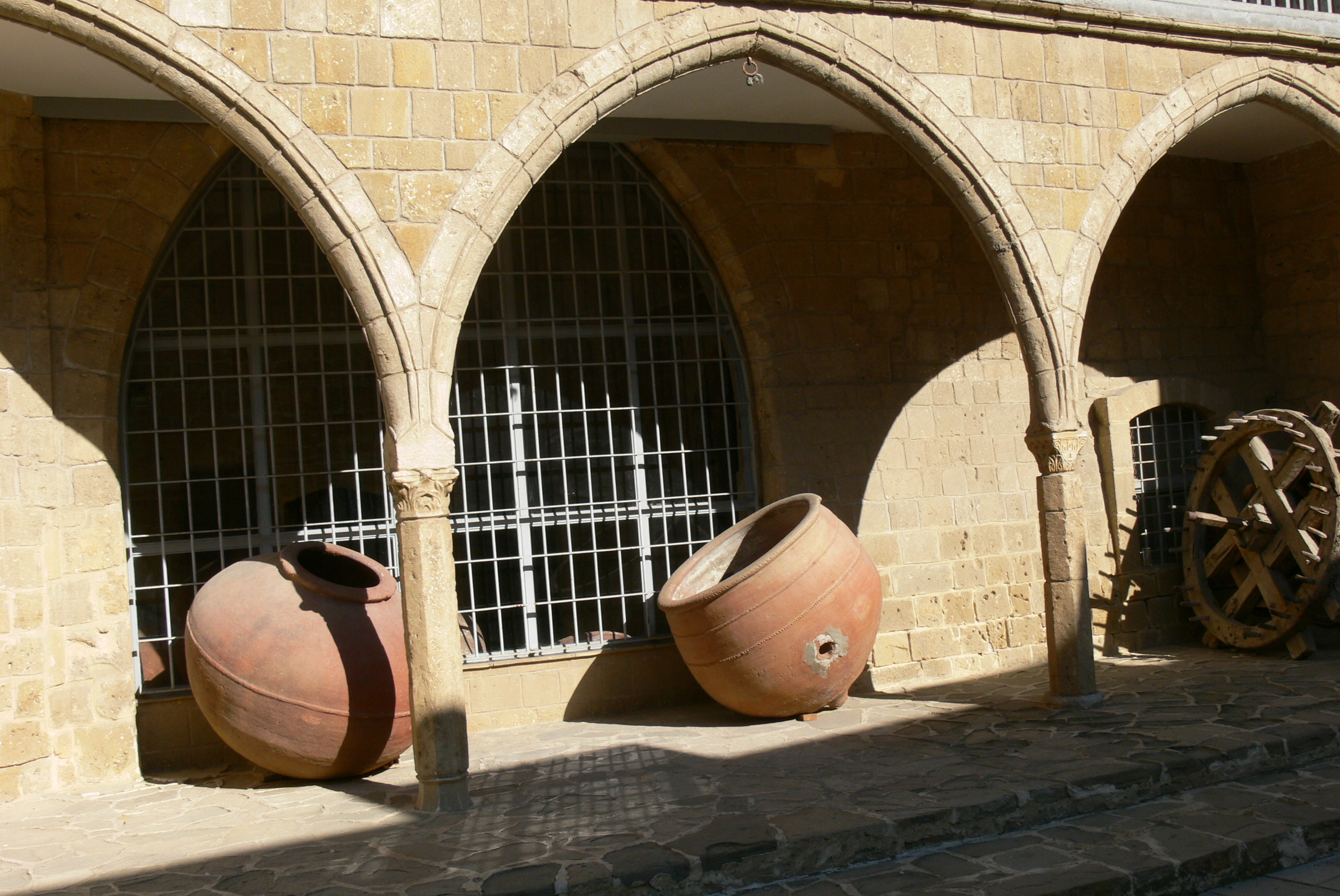 Nicosia ( Cyprus ). Museum of Folk Art - Cloisters ( 15th century ) of a former Benedictine monastery.